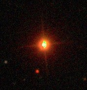 The star K2-18 (also known as EPIC 201912552), as seen by the Sloan Digital Sky Survey.